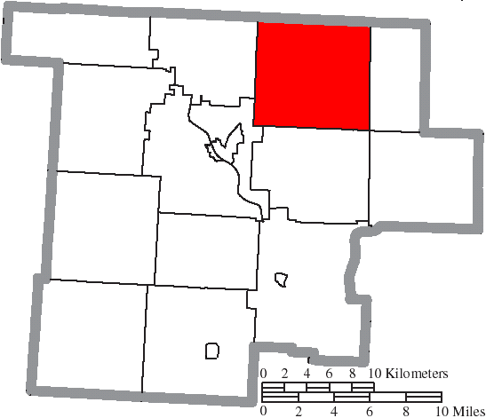 Map of the municipal and township boundaries of Morgan County, Ohio, United States, as of the 2000 census, with the location of Bristol Township highlighted. Township borders are shown only in unincorporated areas in order to differentiate incorporated and unincorporated areas more clearly.